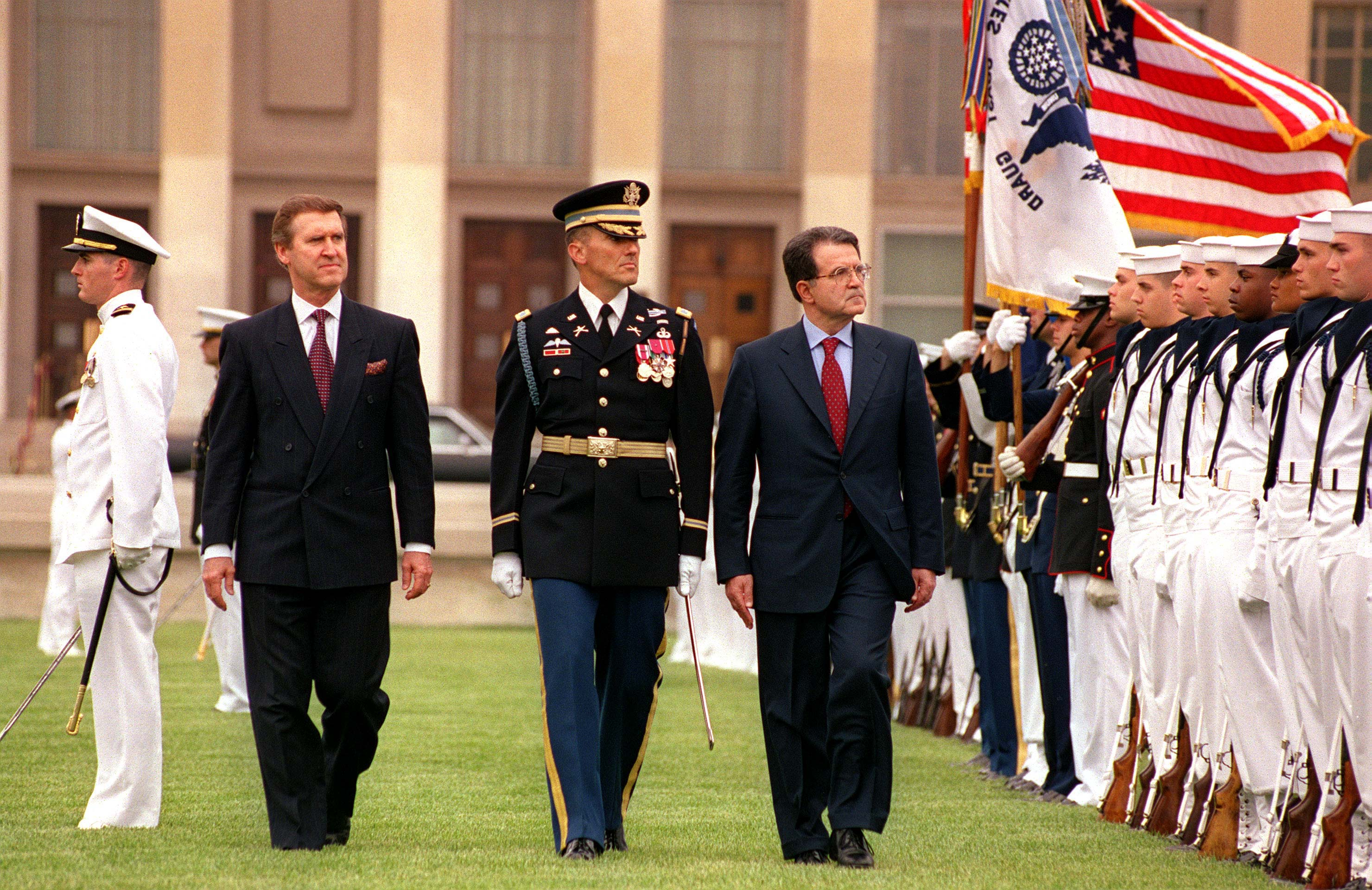 Italian Prime Minister Romano Prodi (right) and Secretary of Defense William S. Cohen (left) are escorted by Commander of Troops Col. Gregory Gardner (center), U.S. Army, as they inspect the joint honor guard during an arrival ceremony for Prodi at the Pentagon on May 7, 1998. Cohen and Prodi will meet to discuss defense issues of interest to both nations. Gardner is the commander, 3rd U.S. Infantry (The Old Guard).